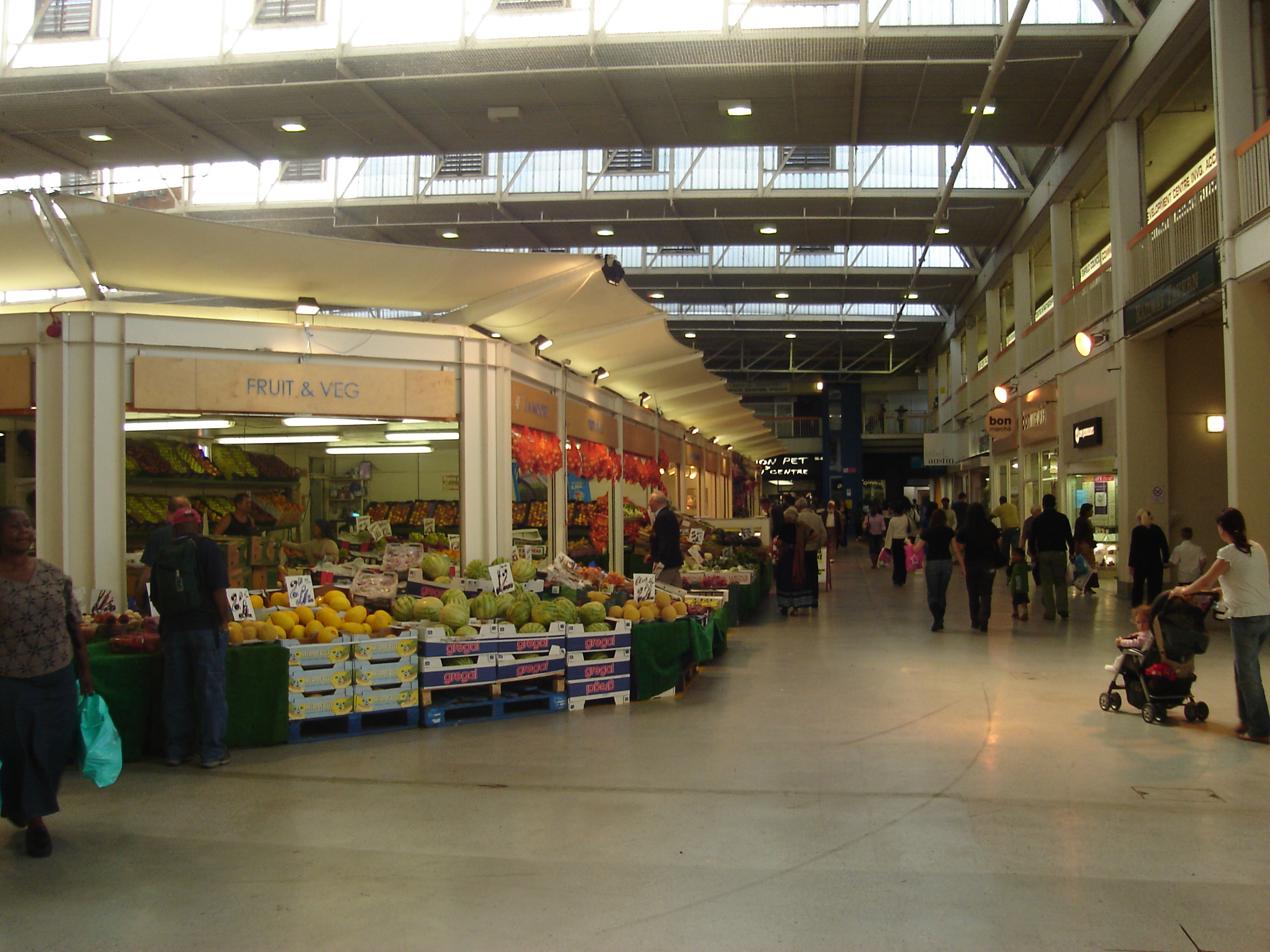 Picture of Edmonton Green Market Square